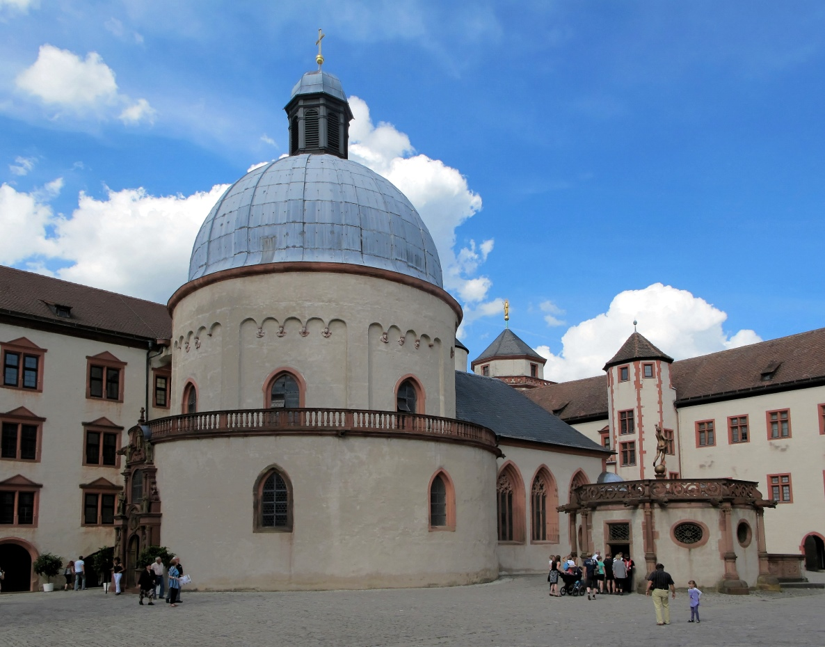 Würzburg, Fortress "Marienberg", Church "Marienkirche" with Fountain House